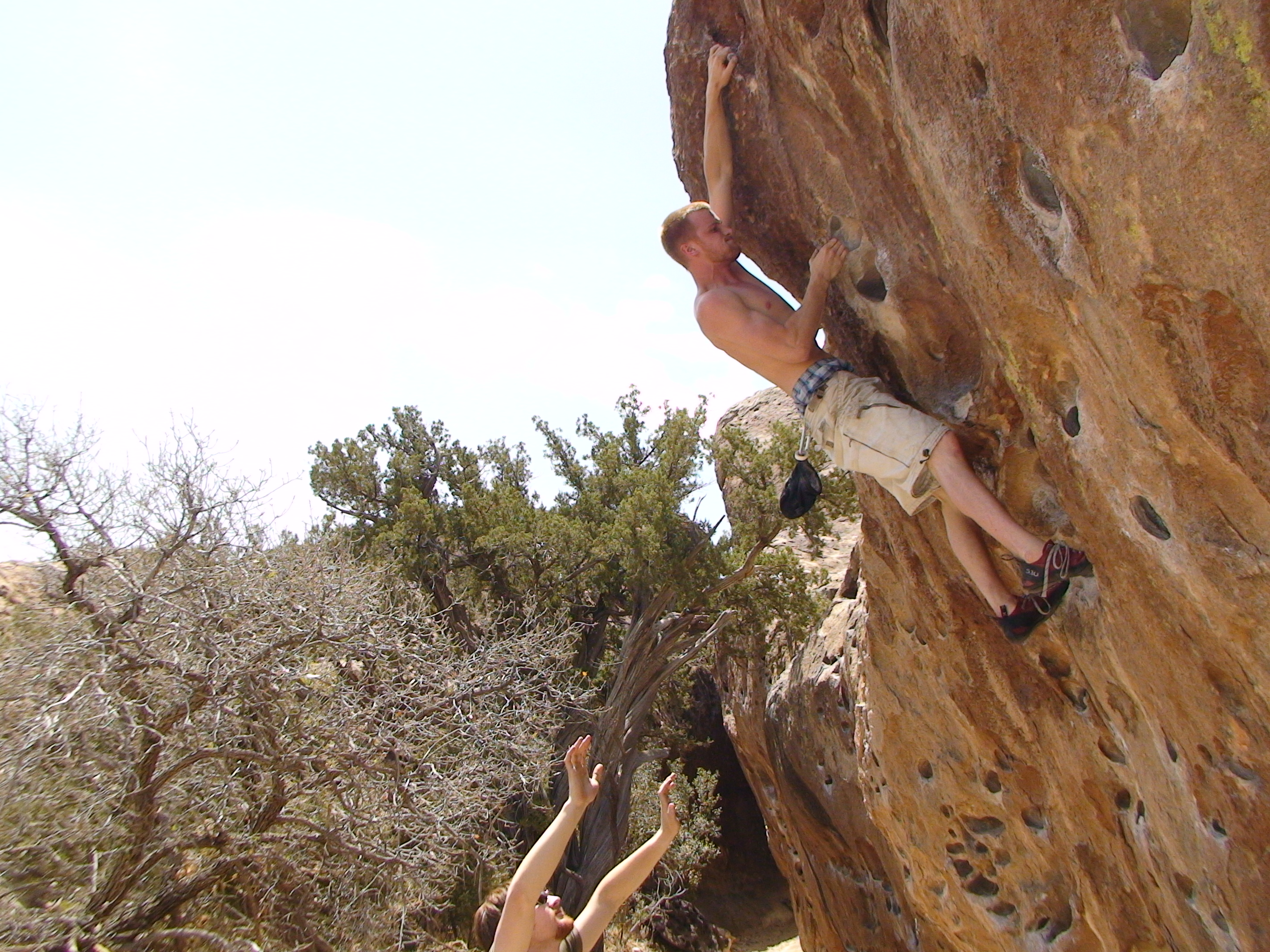 Bouldering on North Mountain at Hueco Tanks State Historic Site, Texas.